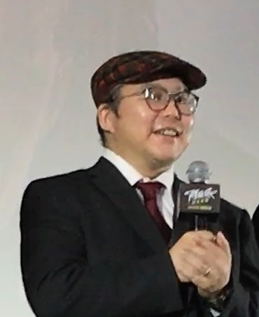 Mr. Yukito Kishiro at the China premiere of Alita: Battle Angel. 2019-02-18 13:07:49 at Beijing Wanda CBD Cinema.